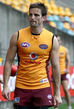 Josh Drummond at a Brisbane Lions public training session in 2007. The Gabba, Brisbane, Australia.